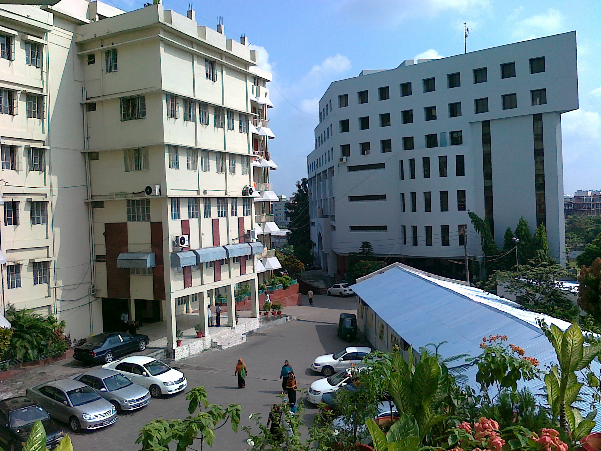 View of the Academic Building & Central Library from a deck on the Old Hospital Building